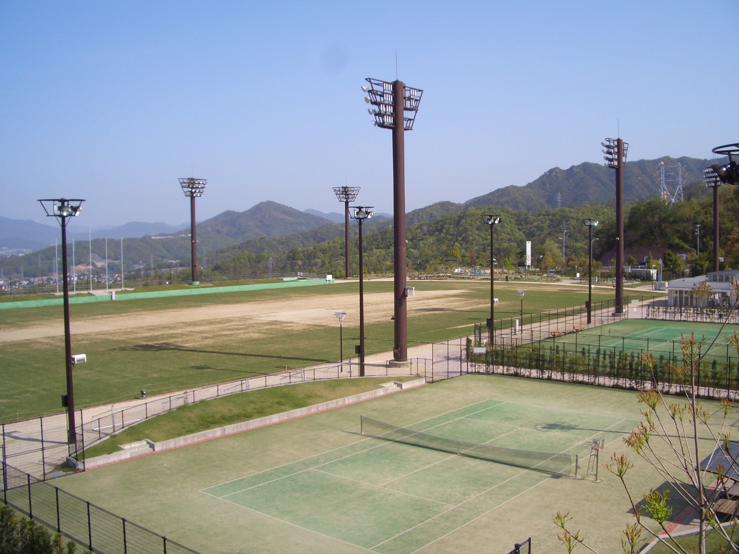 Agekurayama Sportspark Tenniscort.Hiroshima-City,Japan